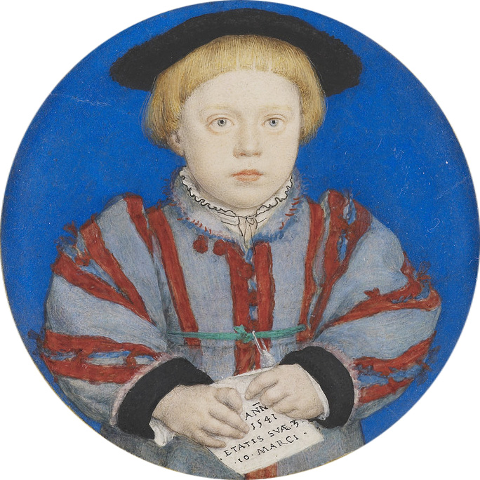 Hans Holbein the Younger, Charles Brandon, 3rd Duke of Suffolk, signed and dated 1541, watercolour on vellum laid on playing card, diameter 5.5 cm (Royal Collection, RCIN 422295).